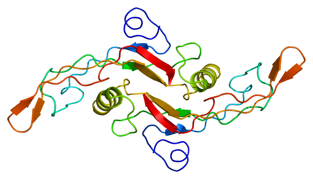 Structure of the TGFB1 protein. Based on PyMOL rendering of PDB 1kla.